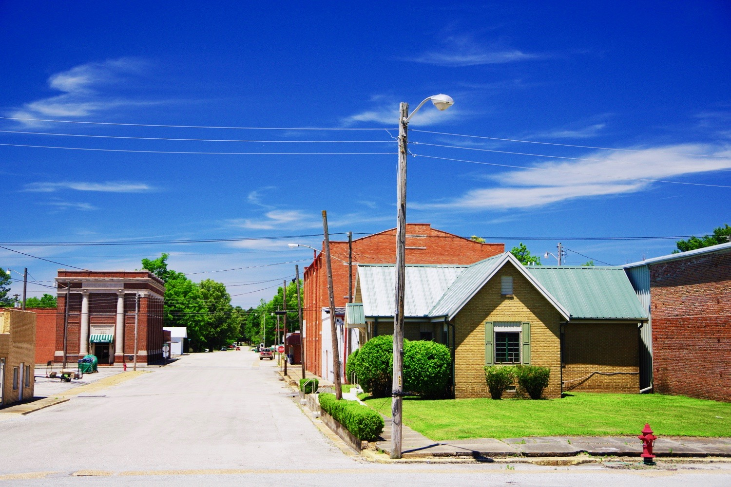 View along Vine Street in Corning, Arkansas, United States